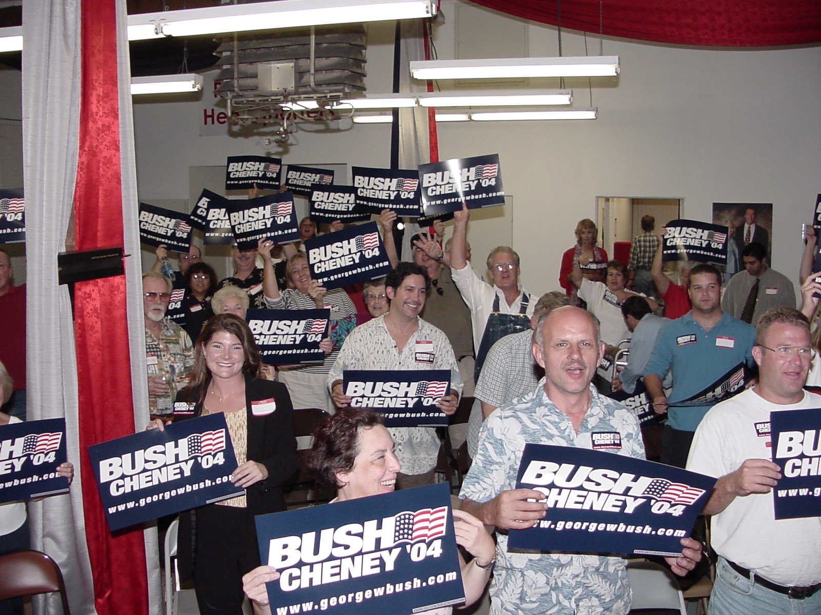 W accepted the nomination and gave an inspiring, funny, and detailed speech. He outlined his plans for the next four years, and I look forward to giving him the chance to carry them out. Check out for the full text of the speech, and all the rest that you would expect to find at the official Bush Cheney '04 campaign site.